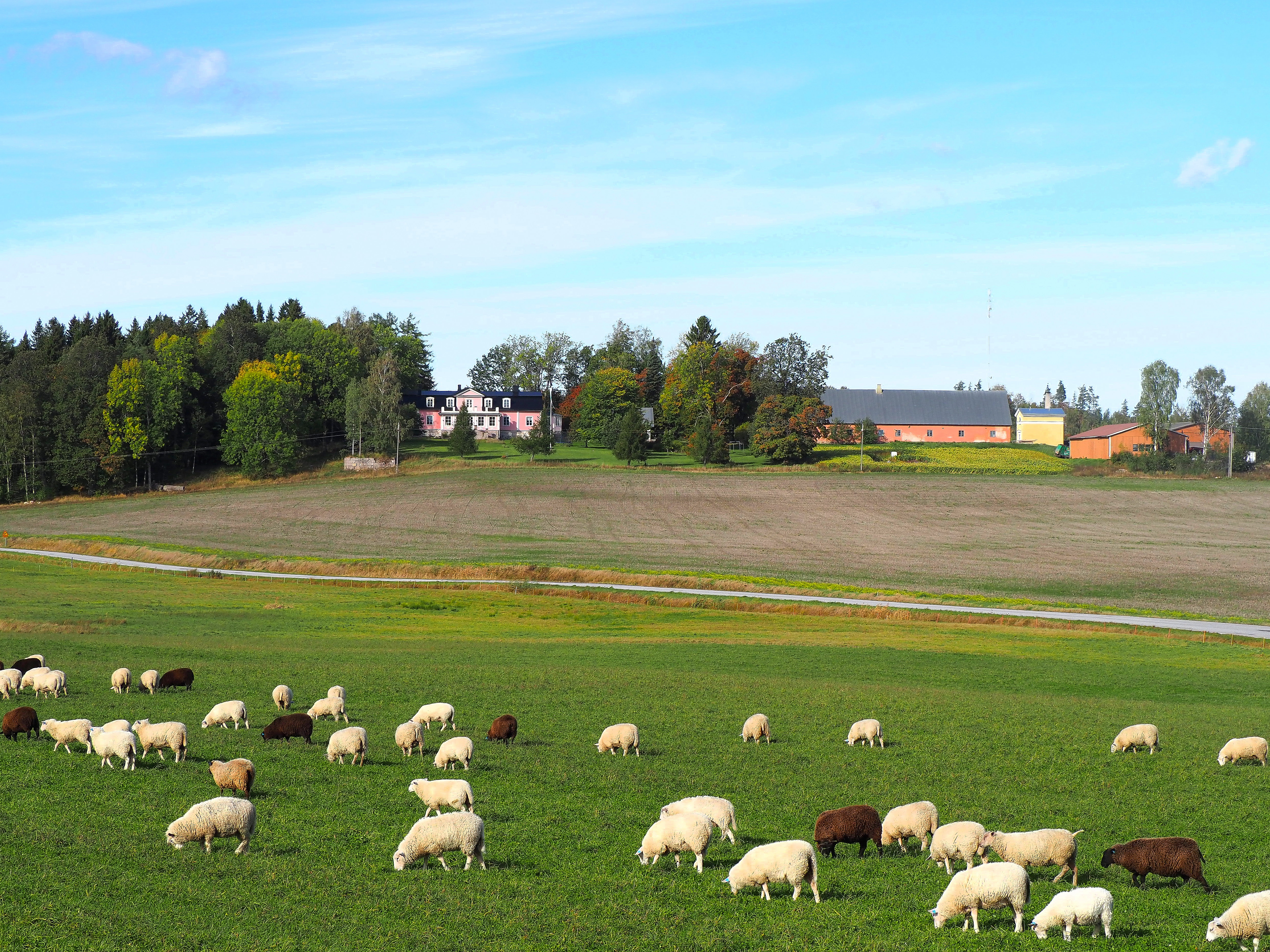 Prästkulla manor at Raasepori Finland